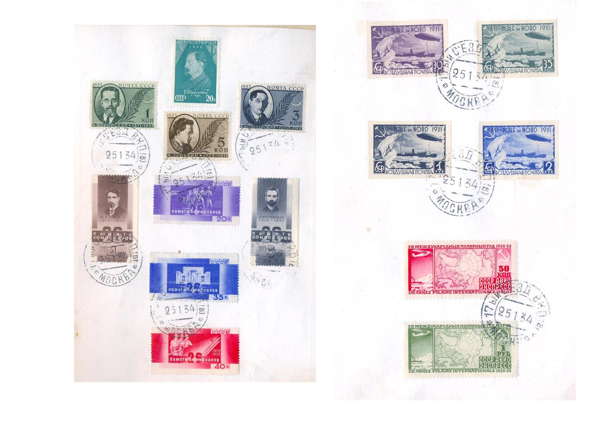 Sheets from a souvenir stamp album "To Delegate of the 17th Congress of the All-Union Communist Party (b)". Stamps of the Soviet Union, 1933, CPA #383-386, 390-391, 432-434, 449-443, 553.